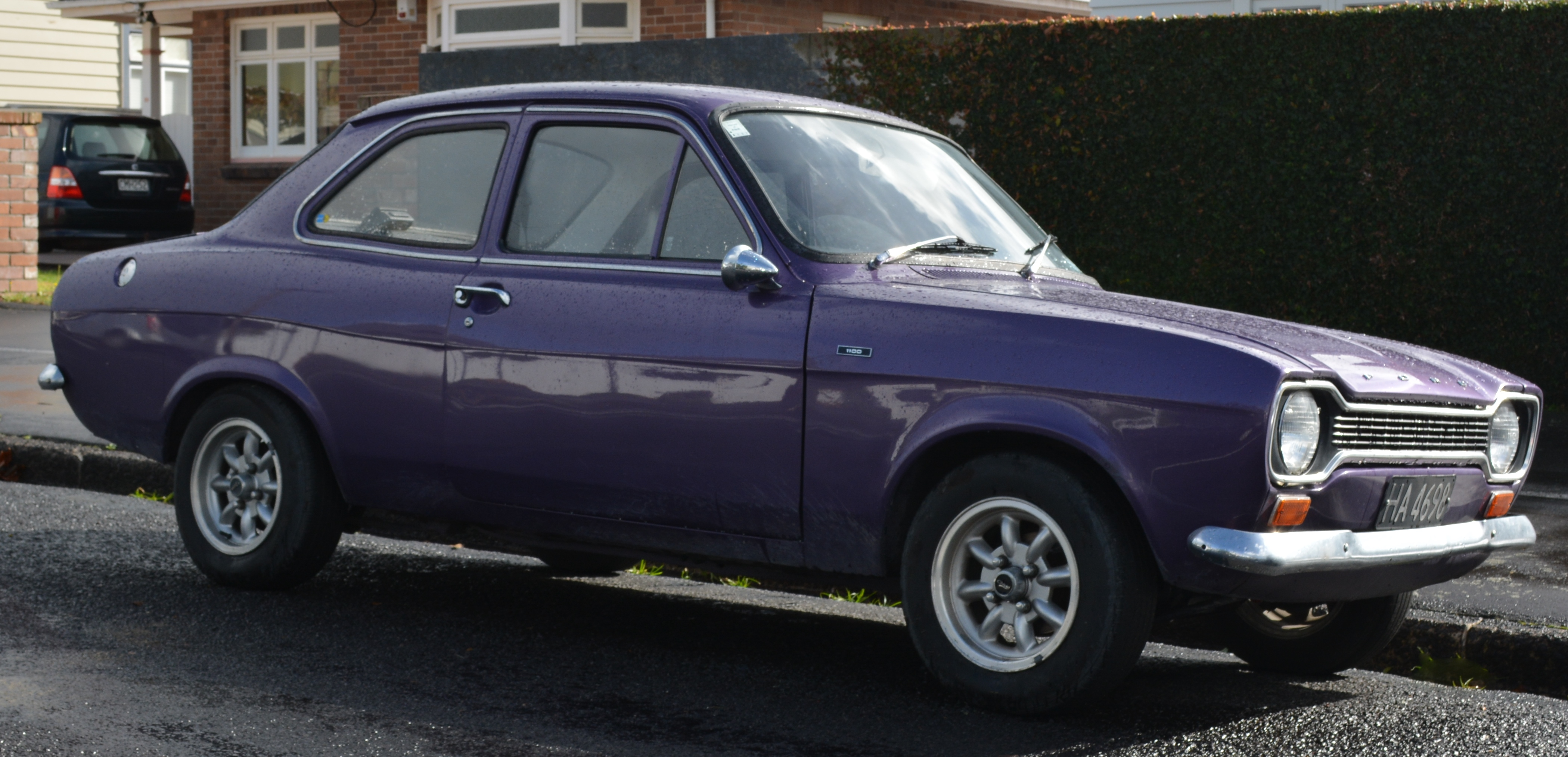 North Shore Auckland,New Zealand